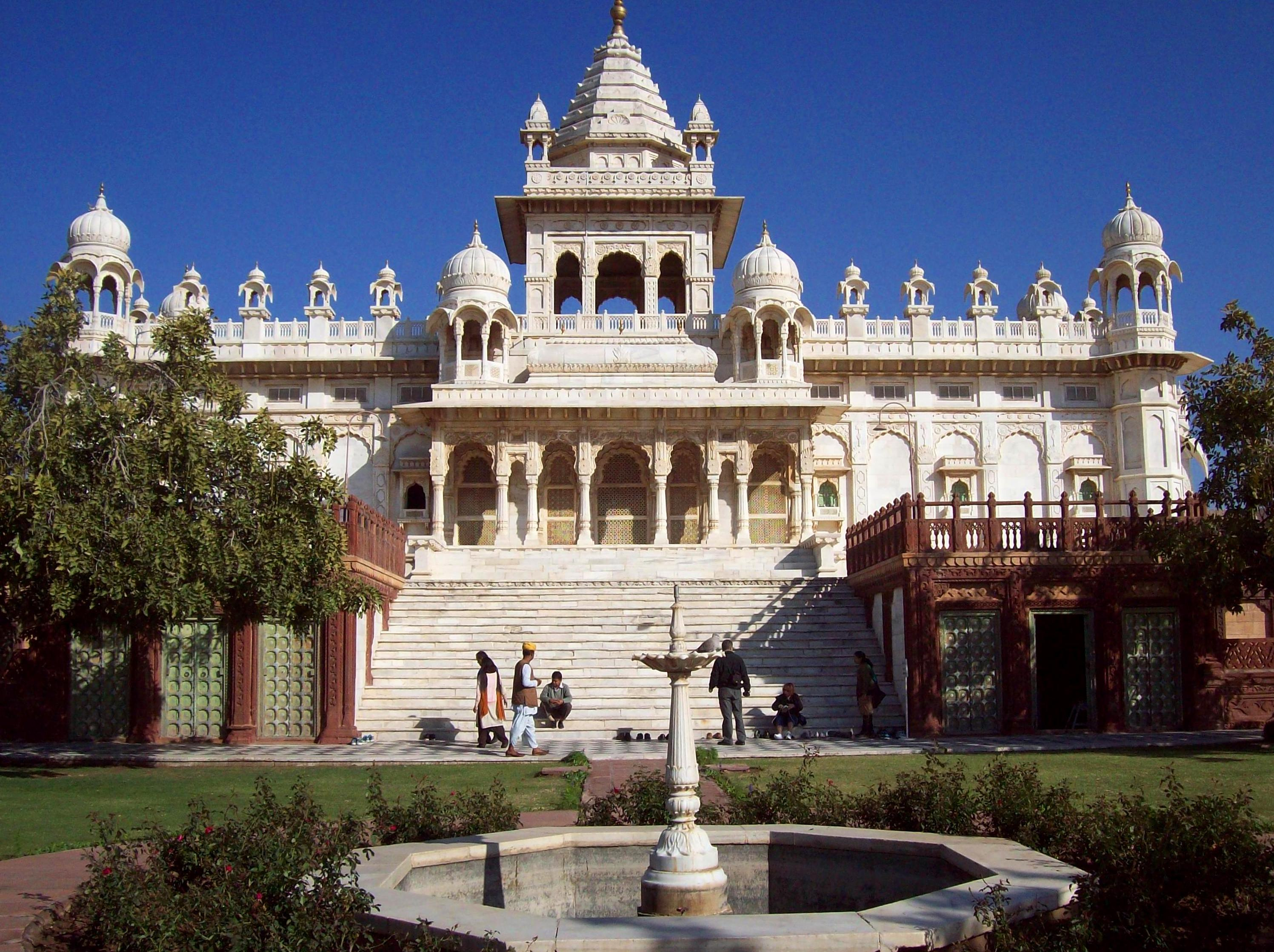 Jaswant Thada - Front View - January morning.